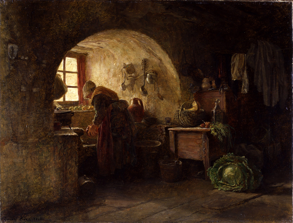 In an alcove of an Ecouen kitchen a peasant woman stands stooped over a bowl with her back to the viewer. Light streaming through the window illuminates the alcove, showing the onions and apples on the sill, the beets and a wicker basket containing a section of squash on a chest, and an exceptionally large cabbage lying on the floor, as well as various utensils, a wicker hamper, a keg, an iron pot, a large ceramic pitcher and various strainers and ladles hanging from pegs on the wall. Discernible within the dimly lit interior are a chest, several pots, and the wash hung to dry.